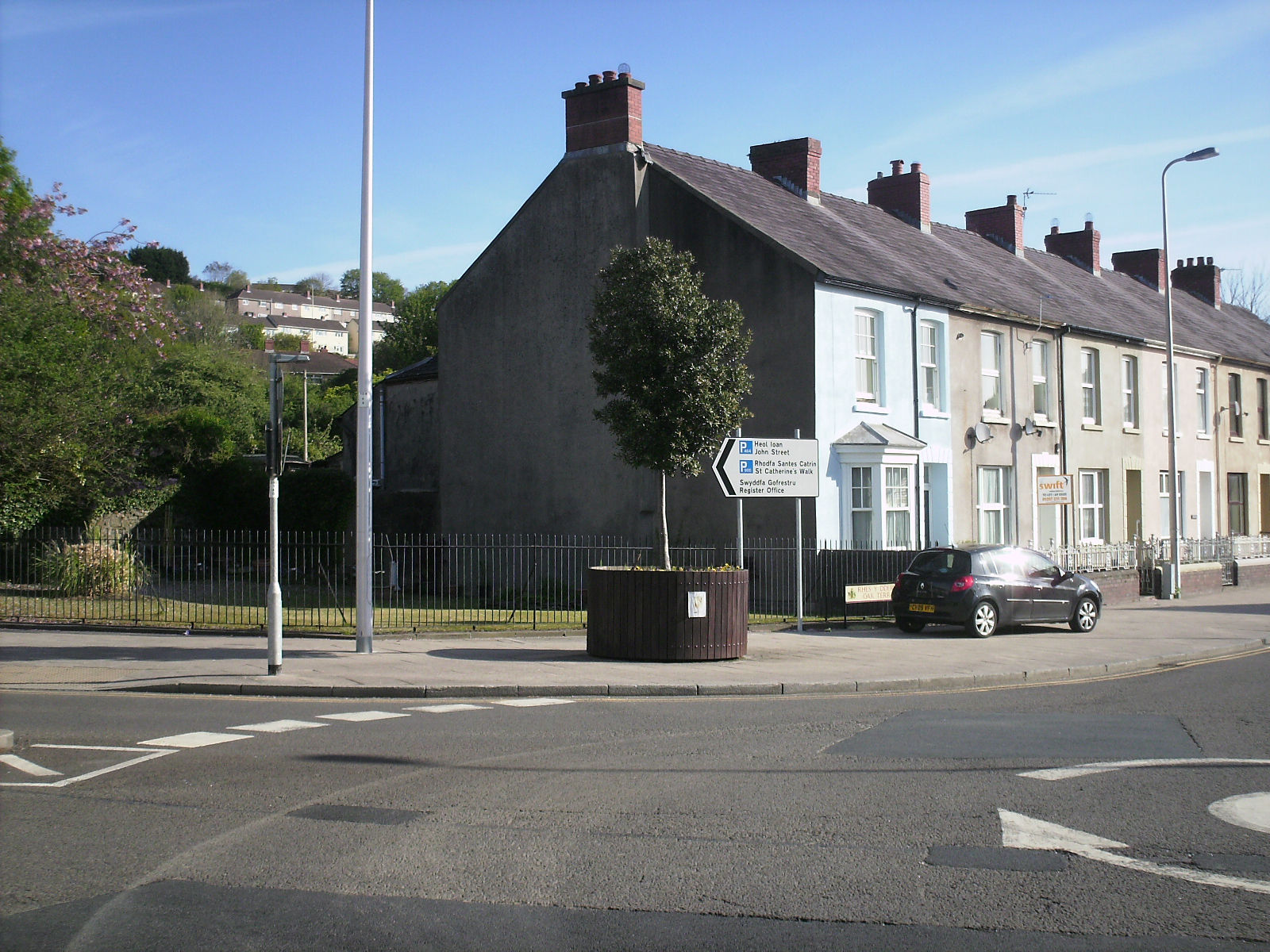 View of the junction of Richmond Terrace with Priory Street in Carmarthen, looking north. Site of the 'Old Oak' or 'Merlin's Oak' associated with local legend. The original tree, long dead, has been removed and a replacement grows in a planter.